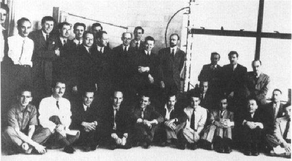 Montreal Laboratory, 1944 Standing, left to right: A. M. Munn, B. Goldschmidt, J. W. Ozcroft, B. W. Sargent, G. A. Graham, J. Gueron, H. F. Freundlich, H. H. Halban, R. Newell, J. Jackson, J. D. Cockcroft, P. Auger, S. G. Bauer, N. Q. Lawrence, A. N. May Sitting, left to right: W. Knowles, P. Demers, J. R. Leicester, H. Seligman, E. D. Courant, E. P. Hincks, F. W. Fenning, G. C. Laurence, B. Pontecorvo, G. Volkoff, A. Weinberg, G. Placzek